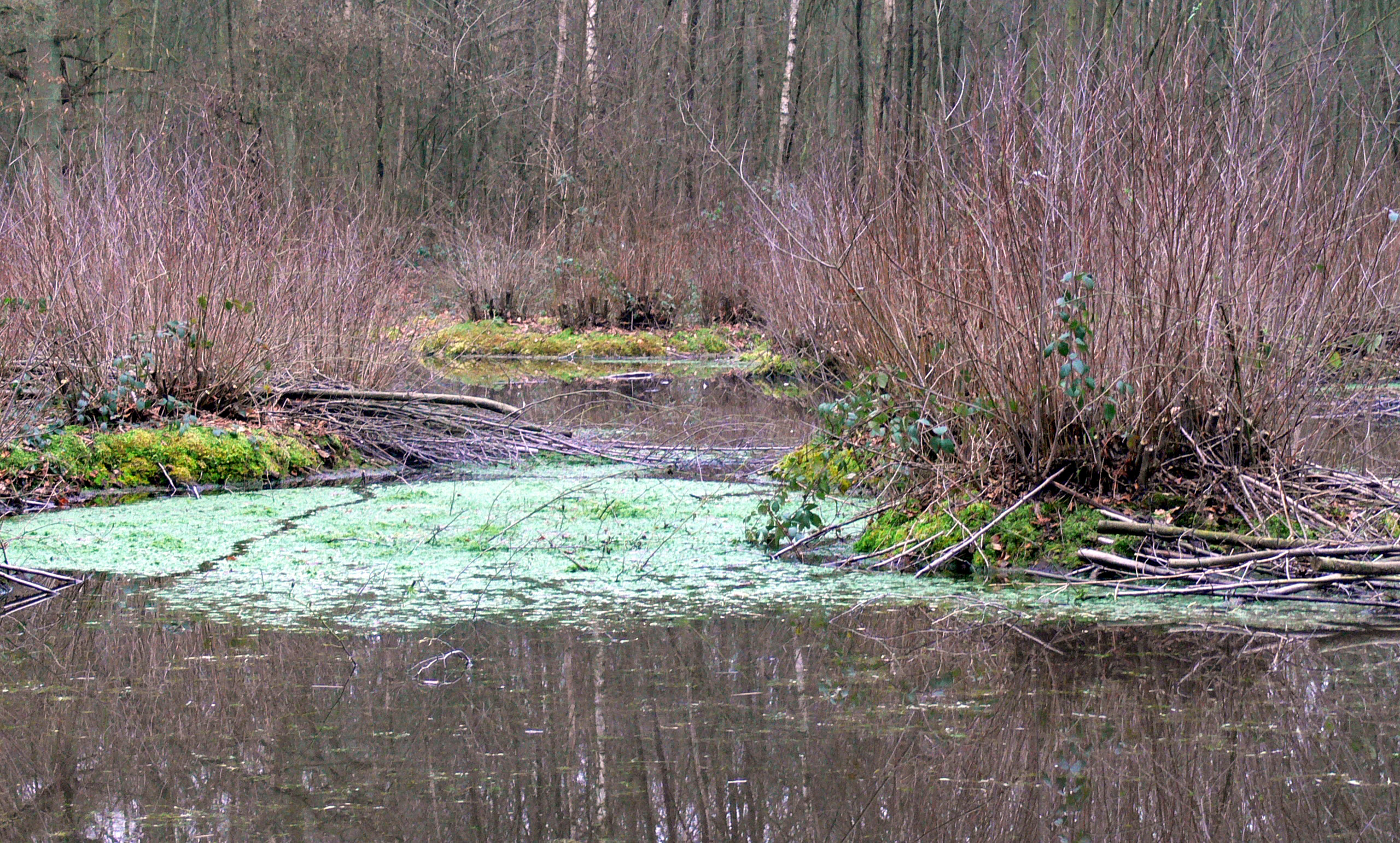 Hottonia palustris (in the center of the region Nord/Pas-deCalais, in the north of the France, on an old pond in forest (Natural regional parc of Scarpe-Escaut)